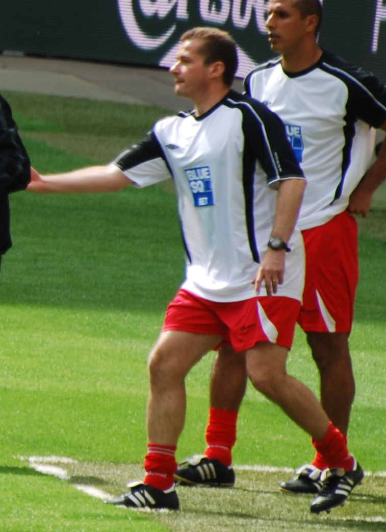 Graham Westley. Image cropped from original at flickr.